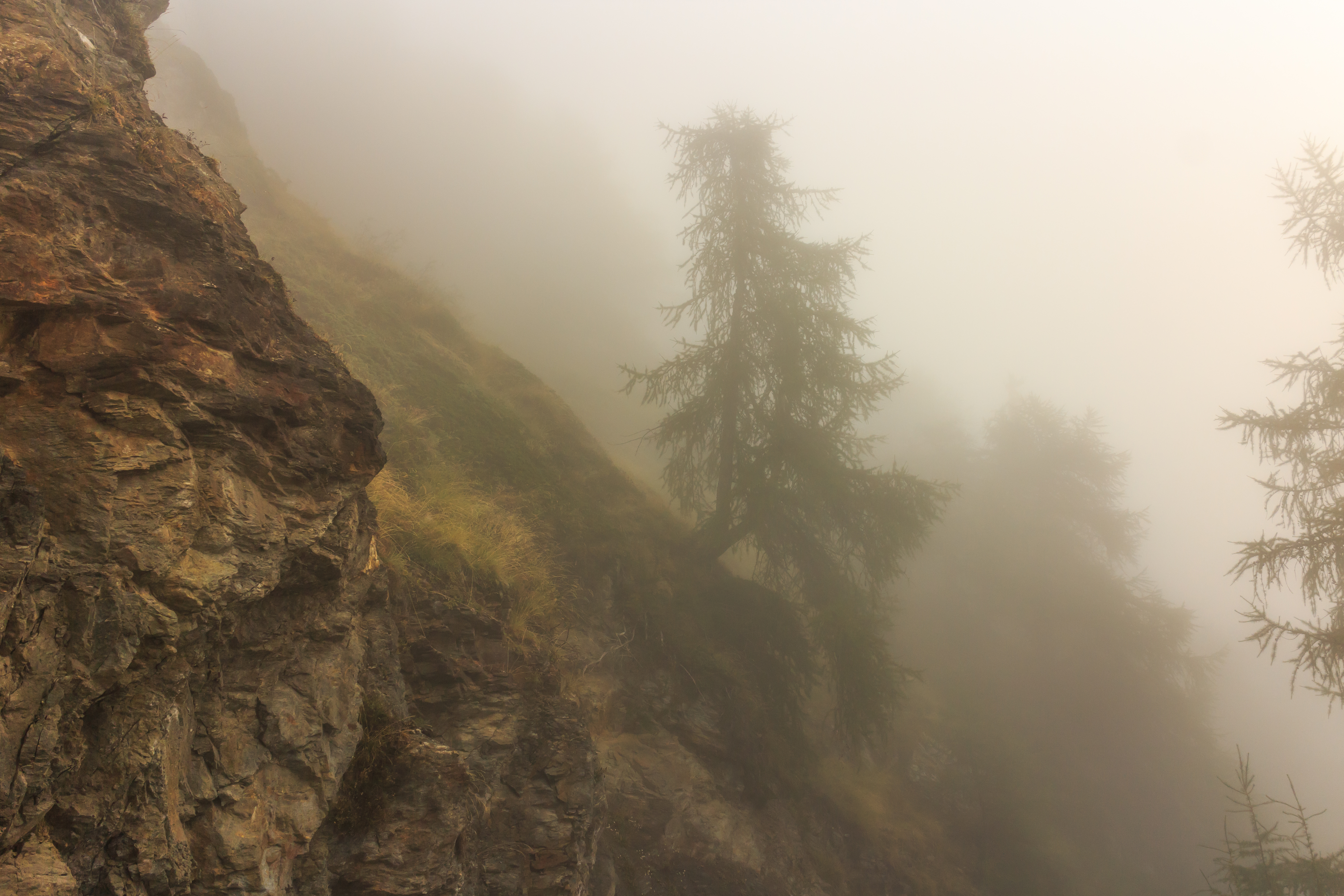 Mountain hiking Vens at Bettex in Valle d'Aosta (Italy). European Larch Larix decidua along mountain path in dense fog.